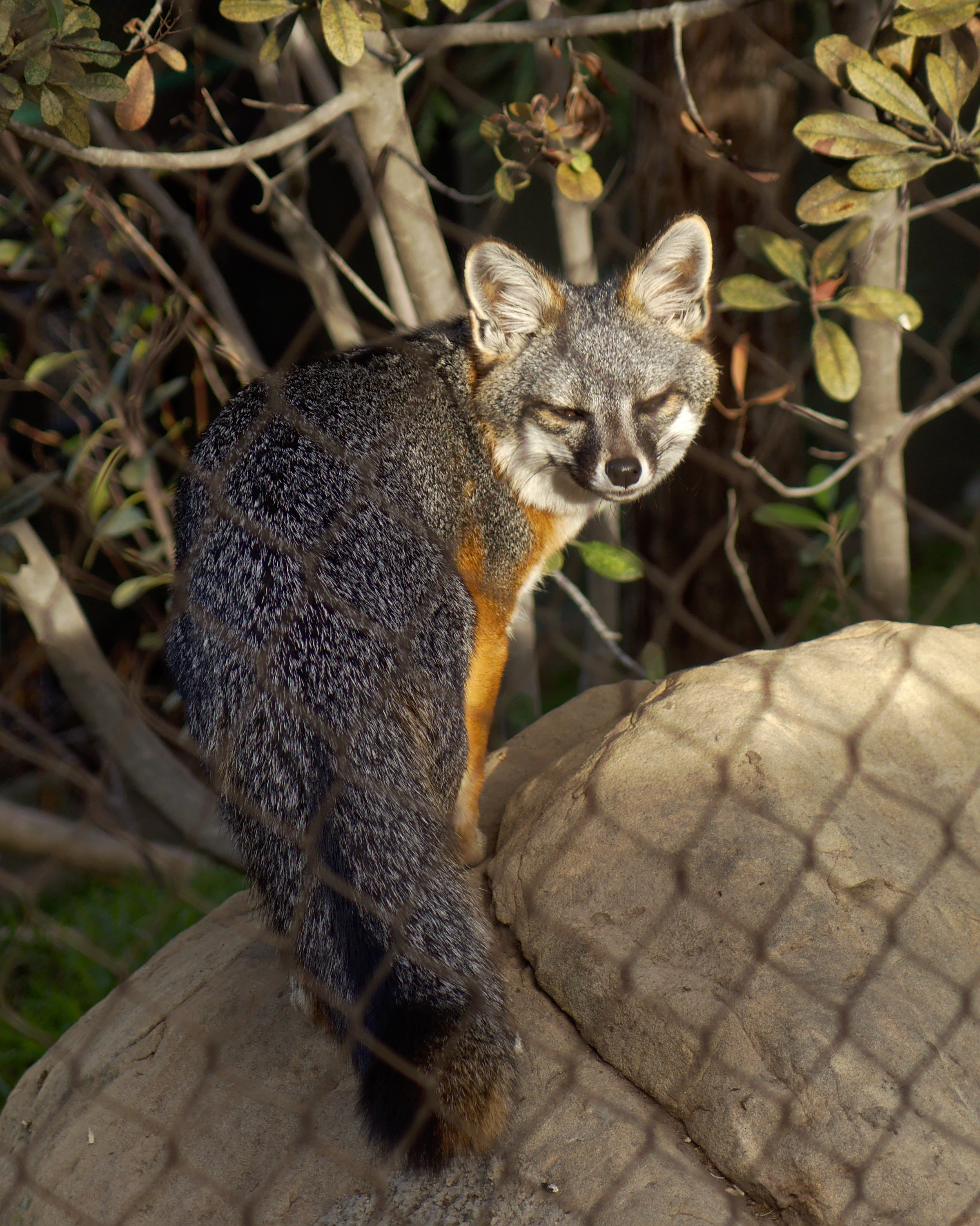 San Clemente Island Fox (Urocyon littoralis clementae) at the Santa Barbara Zoo, held as part of a Species Survival Plan.